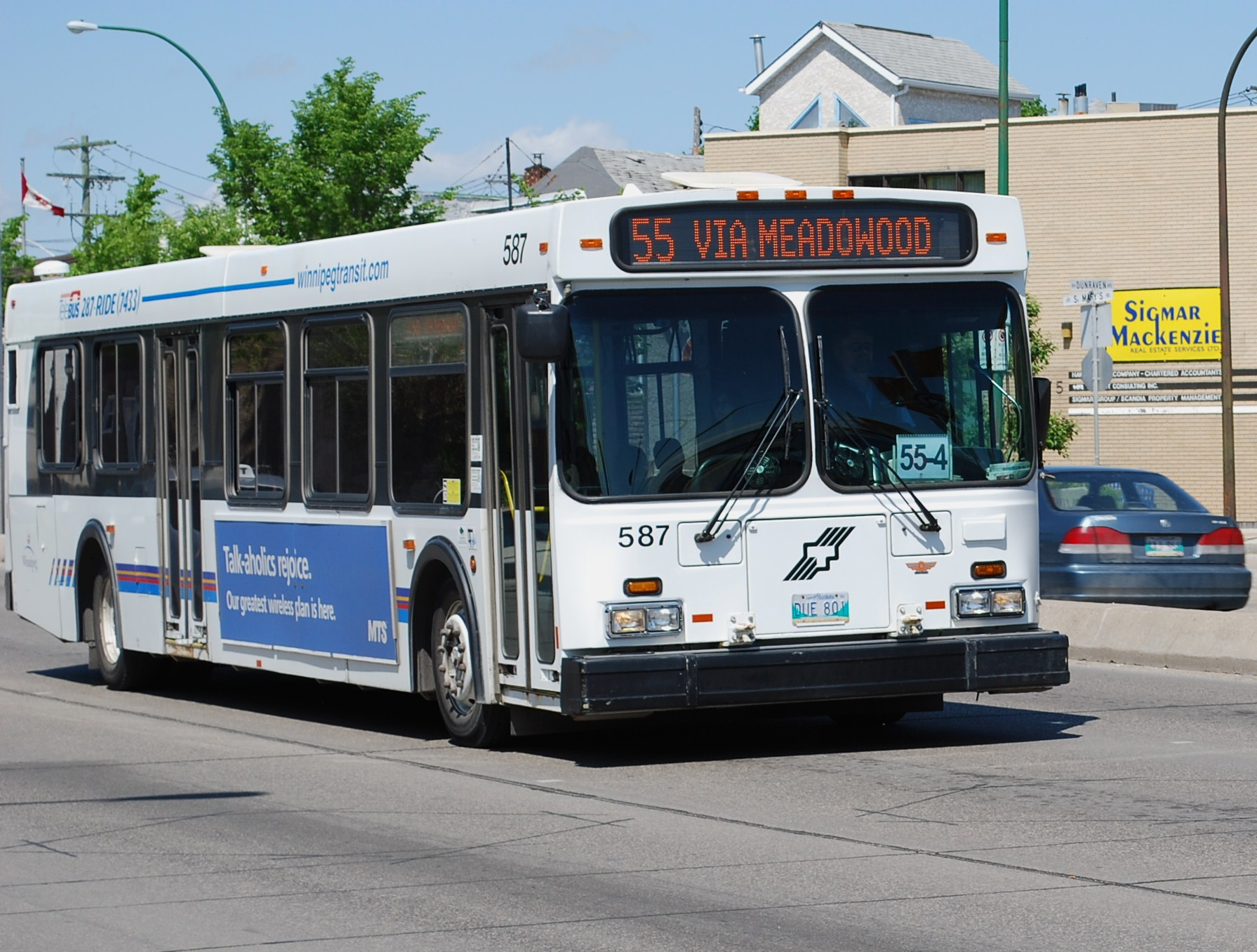 Winnipeg Transit new bus colours: Route 55, photographed at St. Mary's Junction